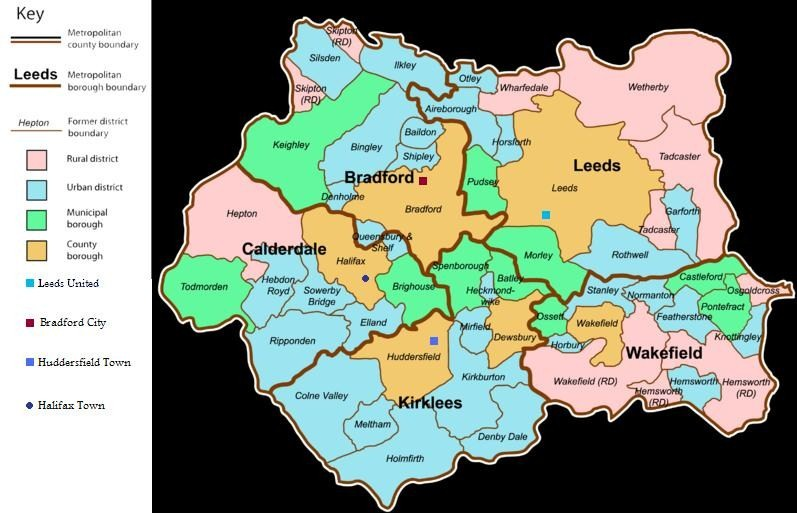 A map of the metropolitan county of West Yorkshire, England. This map highlights former and modern district boundaries (see Key for colour meaning). The locations of the major football clubs have also been added.